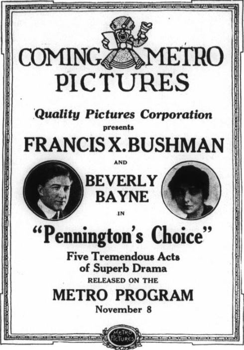 Advertisement for the American drama film Pennington's Choice (1915) with Francis X. Bushman and Beverly Bayne, on page 27 of the October 29, 1915 Variety.